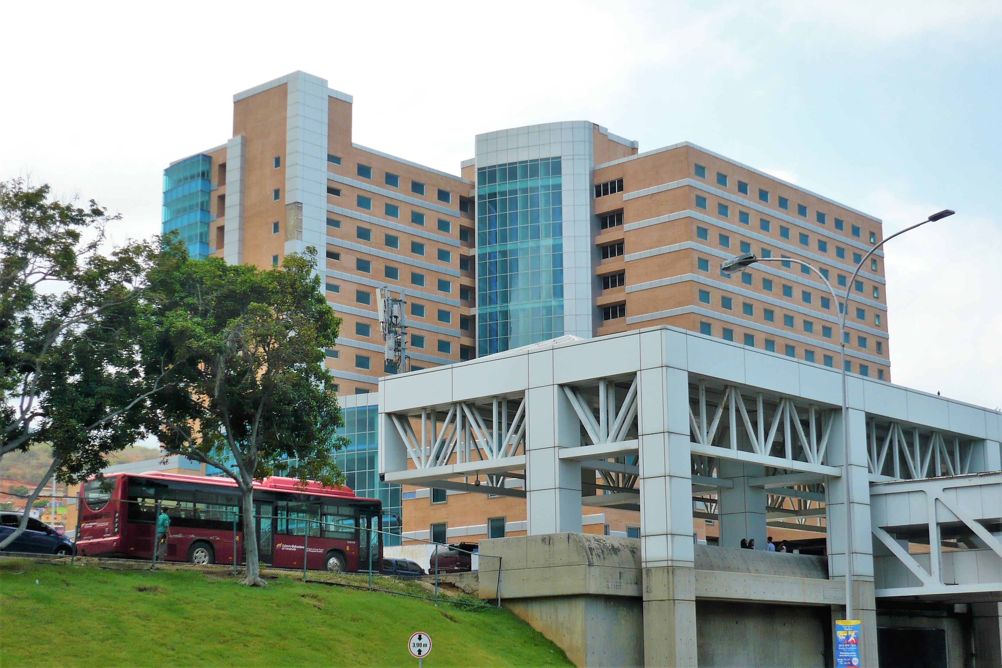 5-star hotel a few meters from the international terminal of Maiquetía International Airport (SVMI)